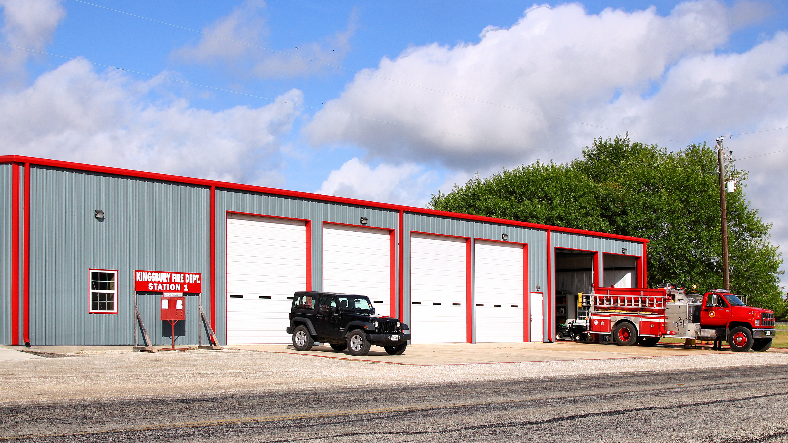 Kingsbury Fire Department Station 1 in Kingsbury, Texas, United States.